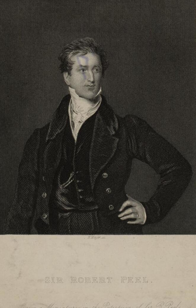 A portrait from the Welsh Portrait Collection at the National Library of Wales. Depicted person: Robert Peel – British Conservative statesman(1788-1850)